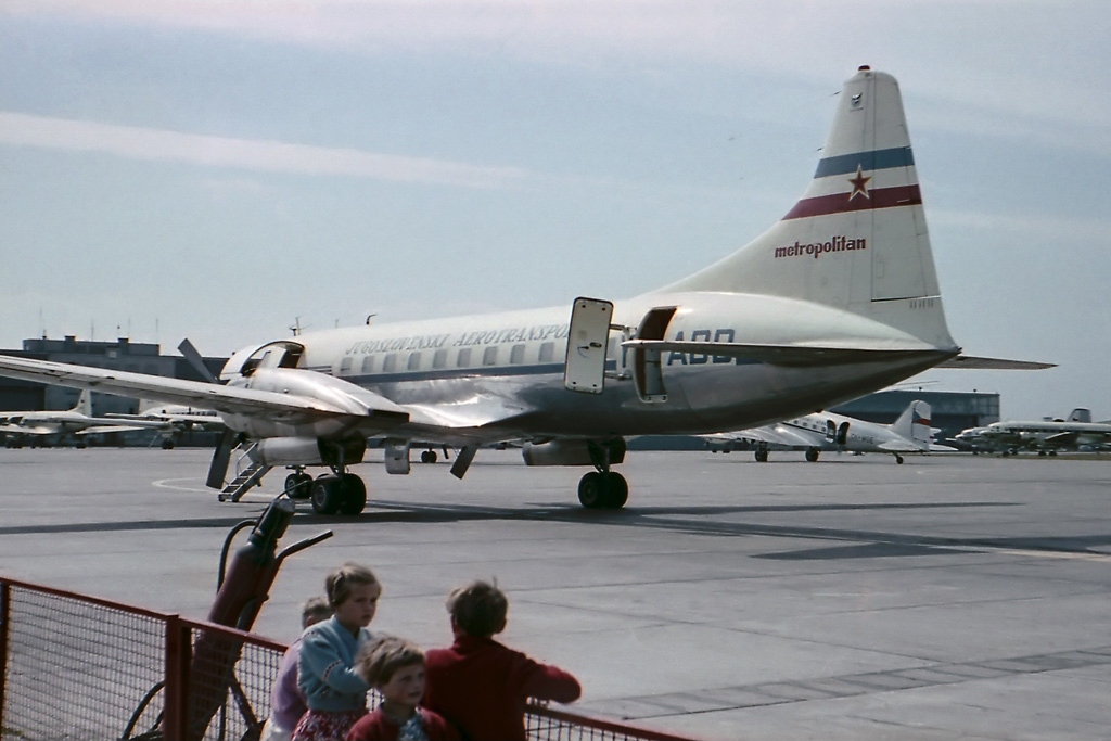 JAT Convair 440-58 at Prague Airport